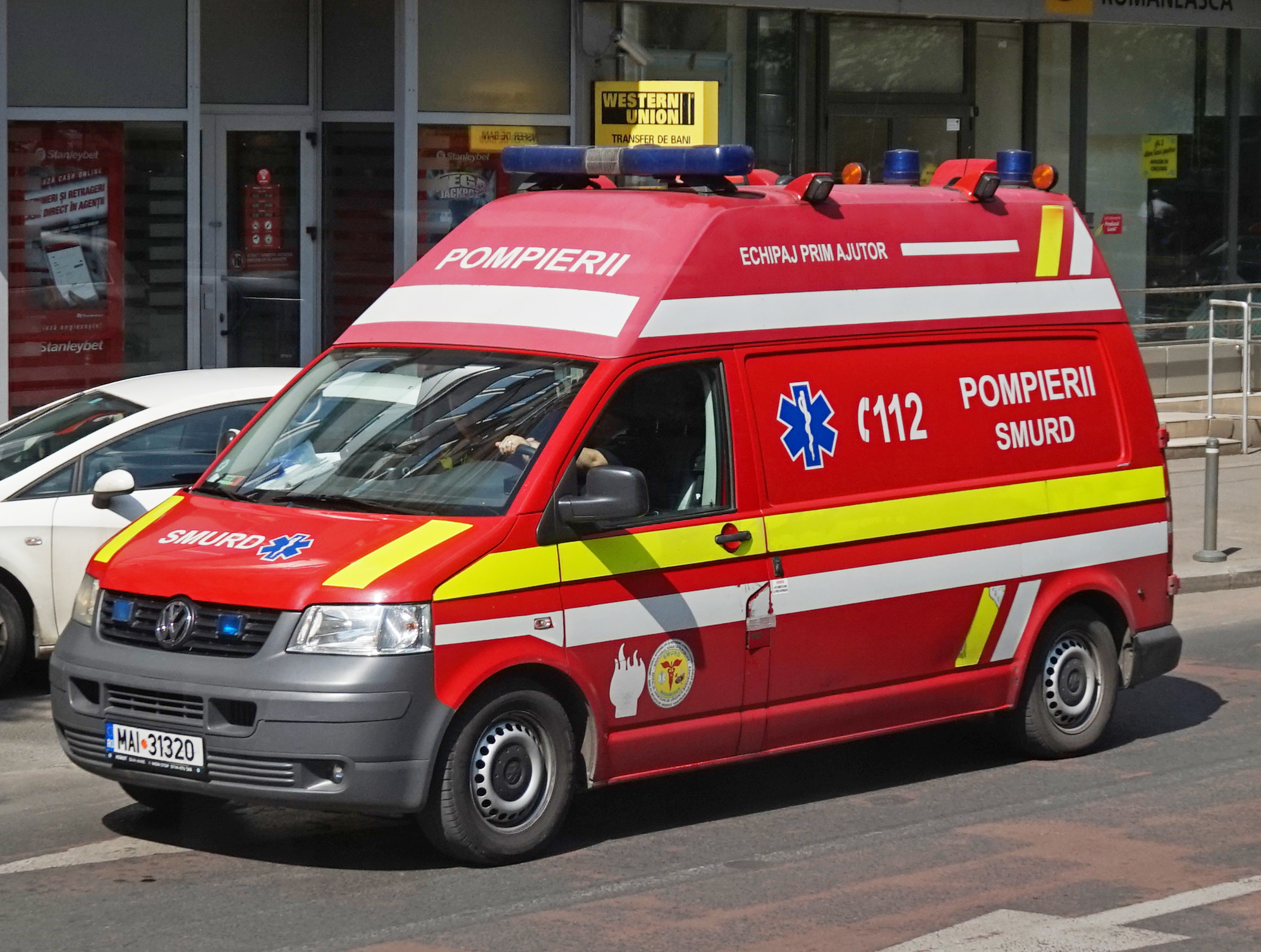 Firefighters' first aid crew vehicle at the street Șoseaua Nicolae Titulescu, Bucharest.